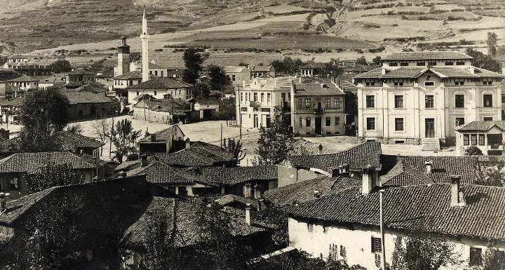 Historic Image of the Bulgarian school in Florina